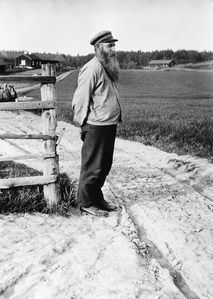 The Parish Constable August Ländin standing at a country road at Åkeshov. Fjärdingsmannen August Ländin i Kårsta som står vid en väg vid Åkeshov. Parish (socken): Kårsta Province (landskap): Uppland Municipality (kommun): Vallentuna County (län): Stockholm Photograph by: Einar Erici Date: 1930s Format: Print Kulturmiljöbild: 16001000295244 (Persistent URL) Read more about the photo database (in english)